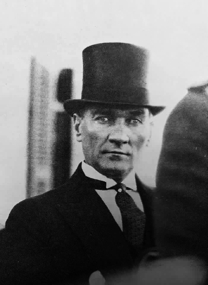 Atatürk while hosting Amanullah Khan in Ankara 1928. See source for more information.